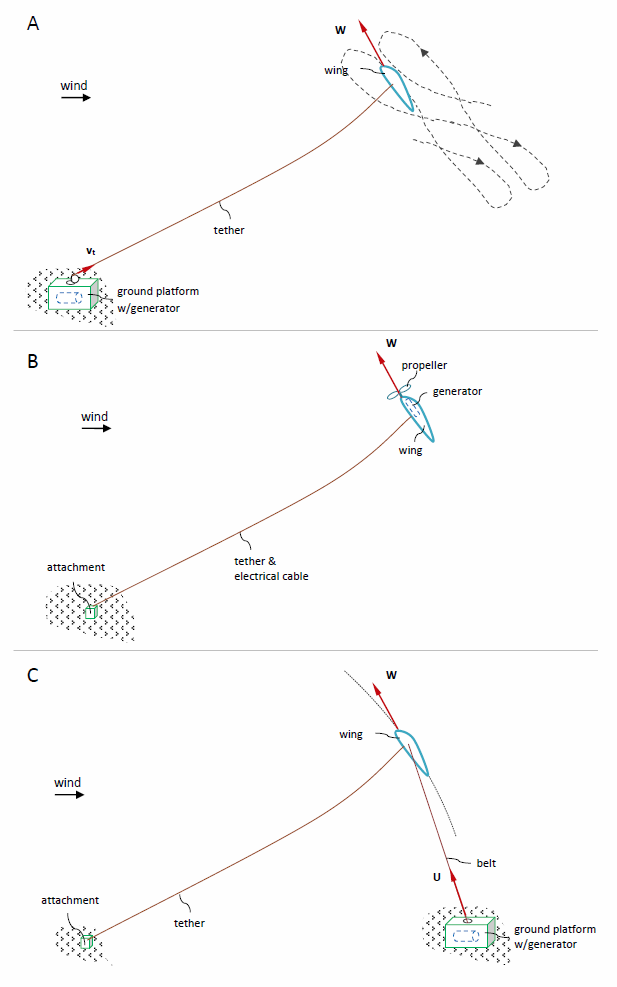 AWECS (airborne wind energy conversion system), crosswind kite power scheme: A) Tether lift system. W is wing velocity. Notice the low speed of tether reel out, shown by vector vt. B) System with onboard generator. Notice the propeller. C) System with a separate motion transfer. Notice the high velocity U of the motion transfer cable.